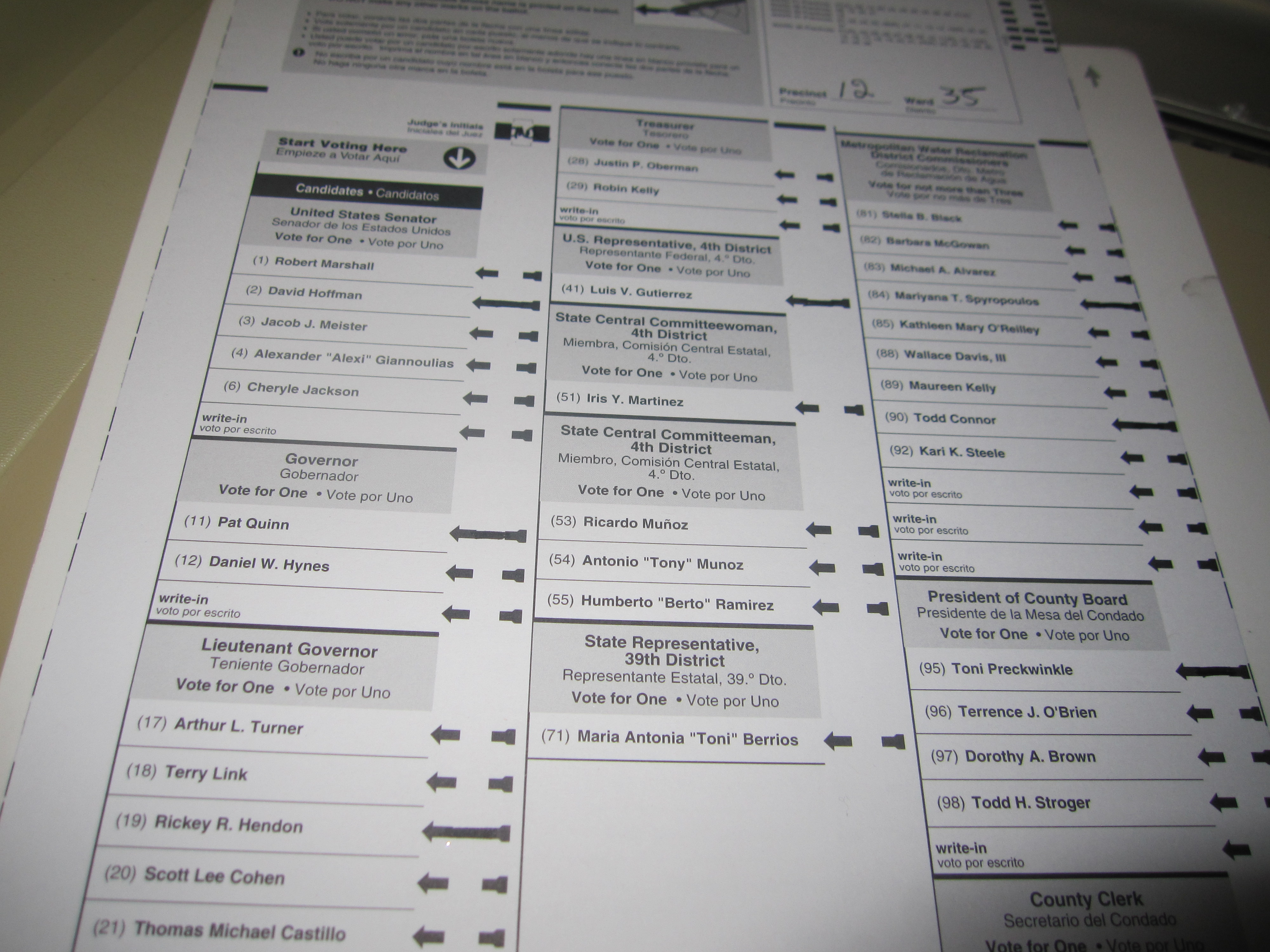 A primary ballot from Illinois 2010